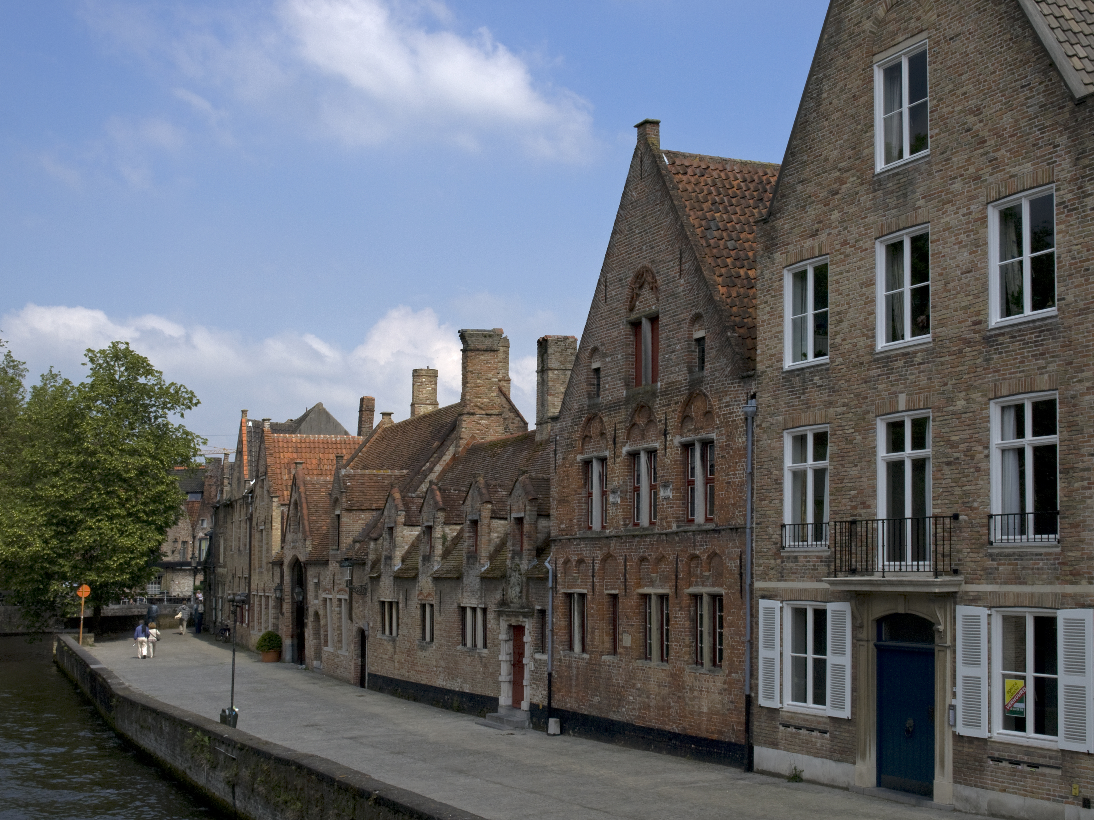 Voormalig godshuis De Pelikaan, Groenerei 8 (middle buildings: triangular and the one-story building with the chimneys to the left), Brugge